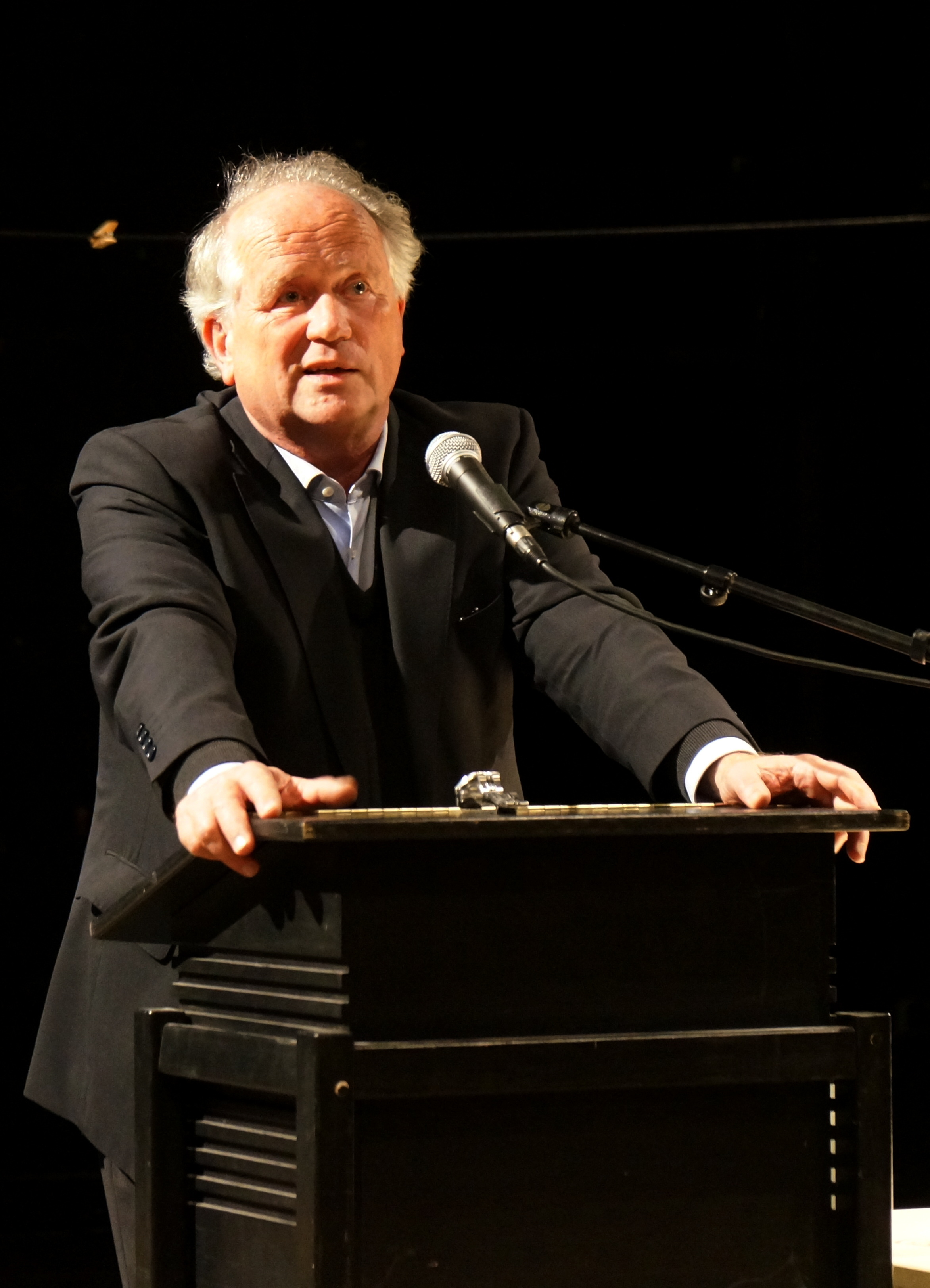 Heiner Flassbeck holding a speech in Bremen (Germany)